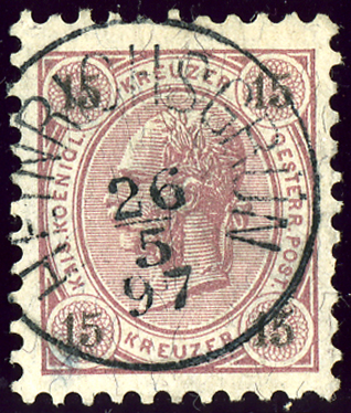 Austrian KK 15 kreuzer stamp, cancelled in HEINRICHSGRÜN in 1897 (Bohemia)